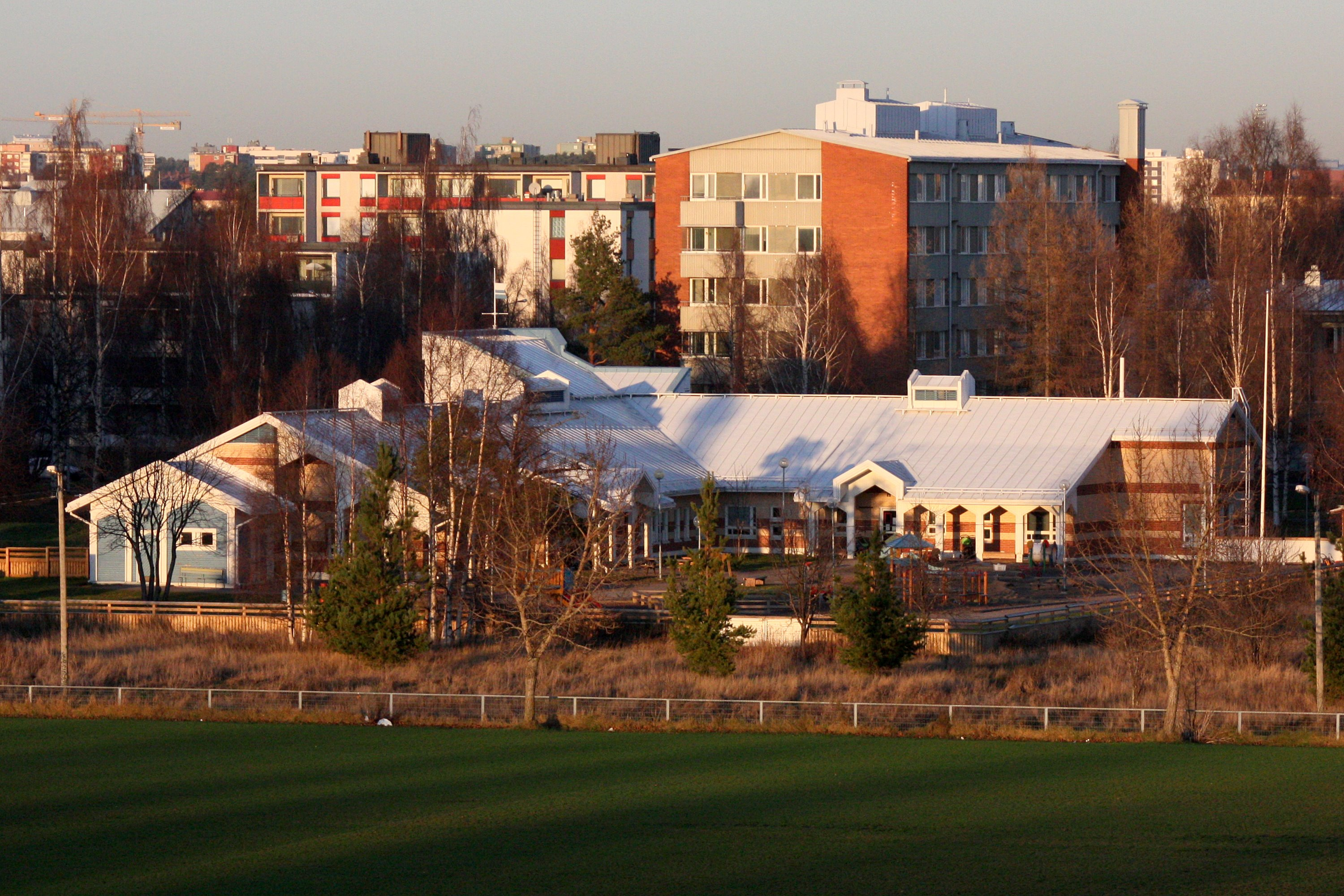 Pikku-Iikka kindergarten in Nuottasaari, Oulu, Finland. The kidergarten was built in 1988.